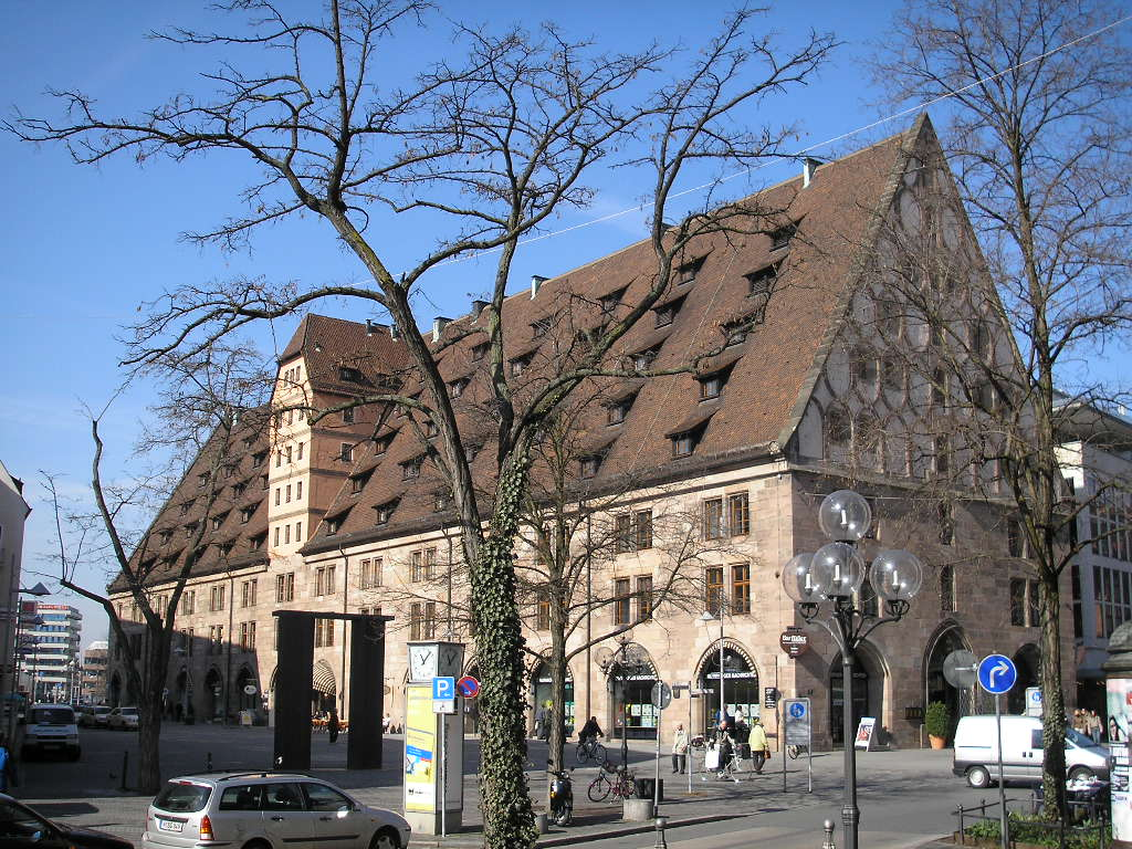 Image of the Mauthalle in Nuremberg in Bavaria.